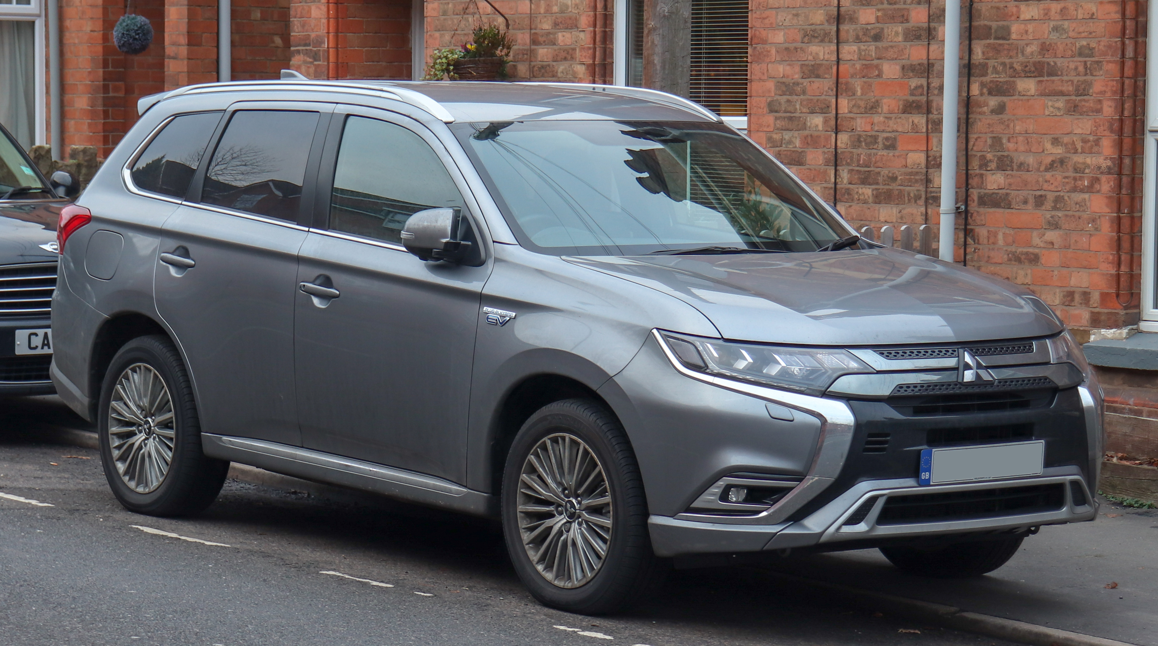 2018 Mitsubishi Outlander PHEV 4h CVT 2.4 Front Taken in Warwick